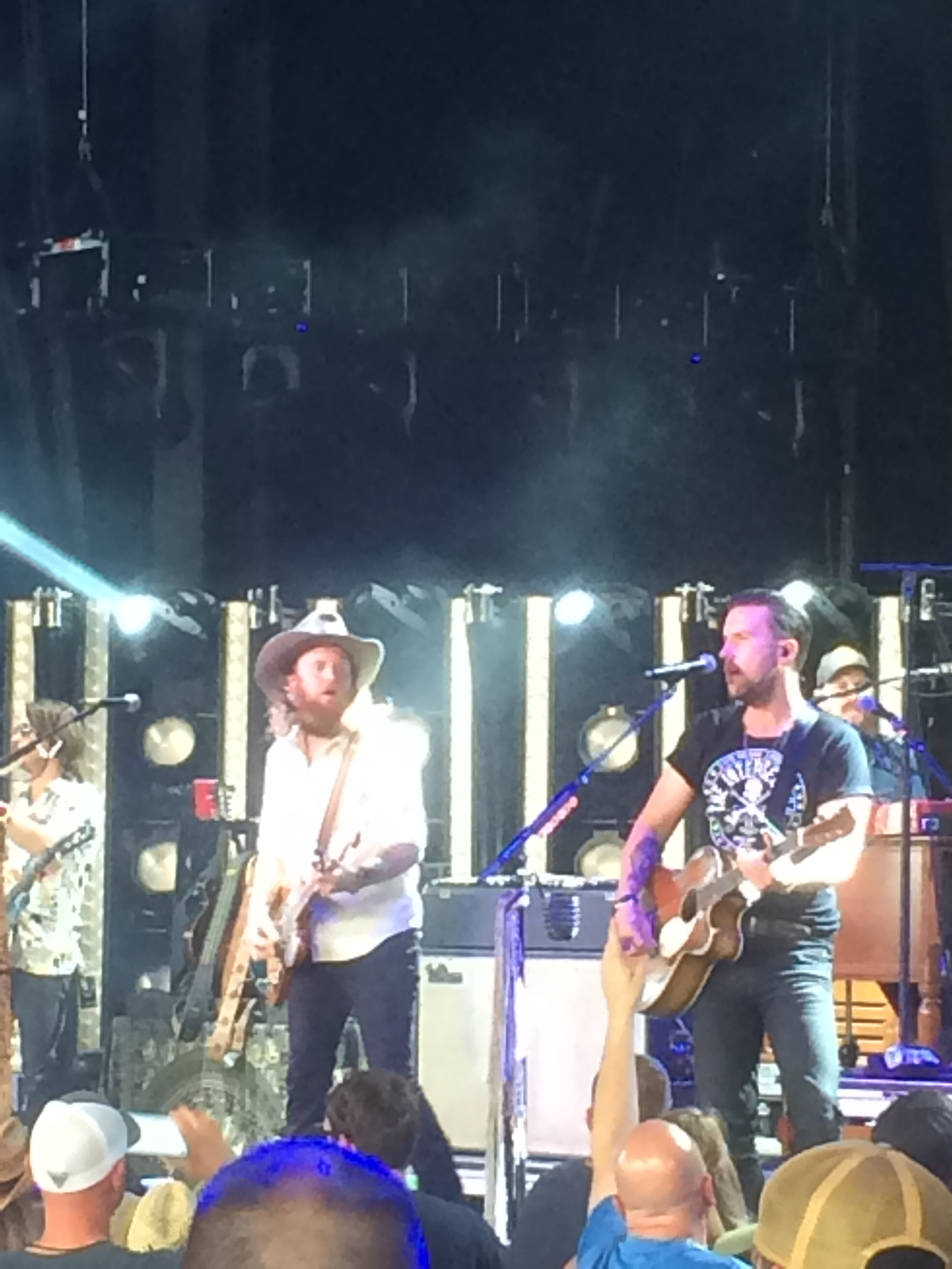 Brothers osborne at DTE Energy Theater